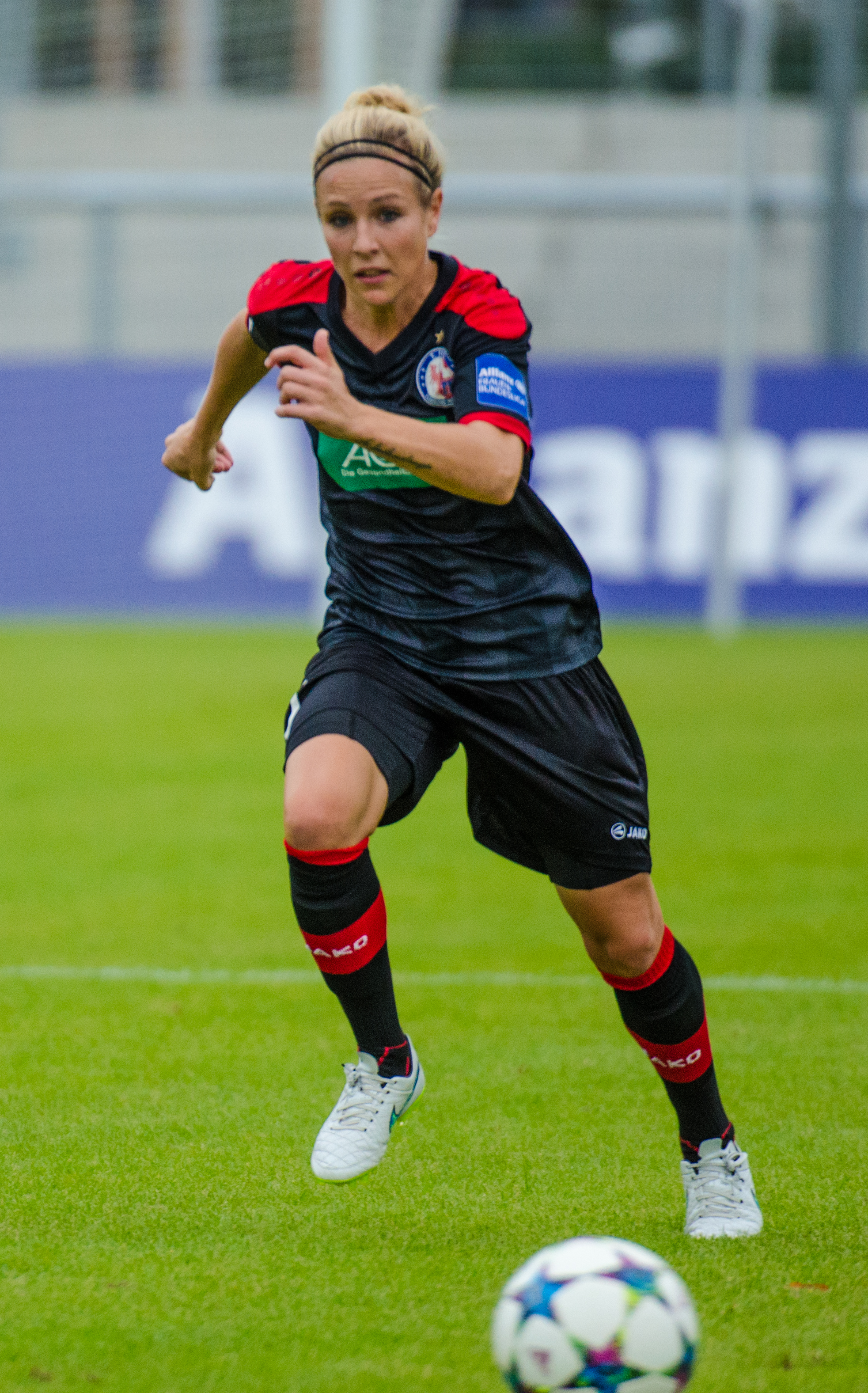 Match of the German Women's Football Bundesliga between 1.FFC Frankfurt and 1. FFC Turbine Potsdam, 2015-09-13